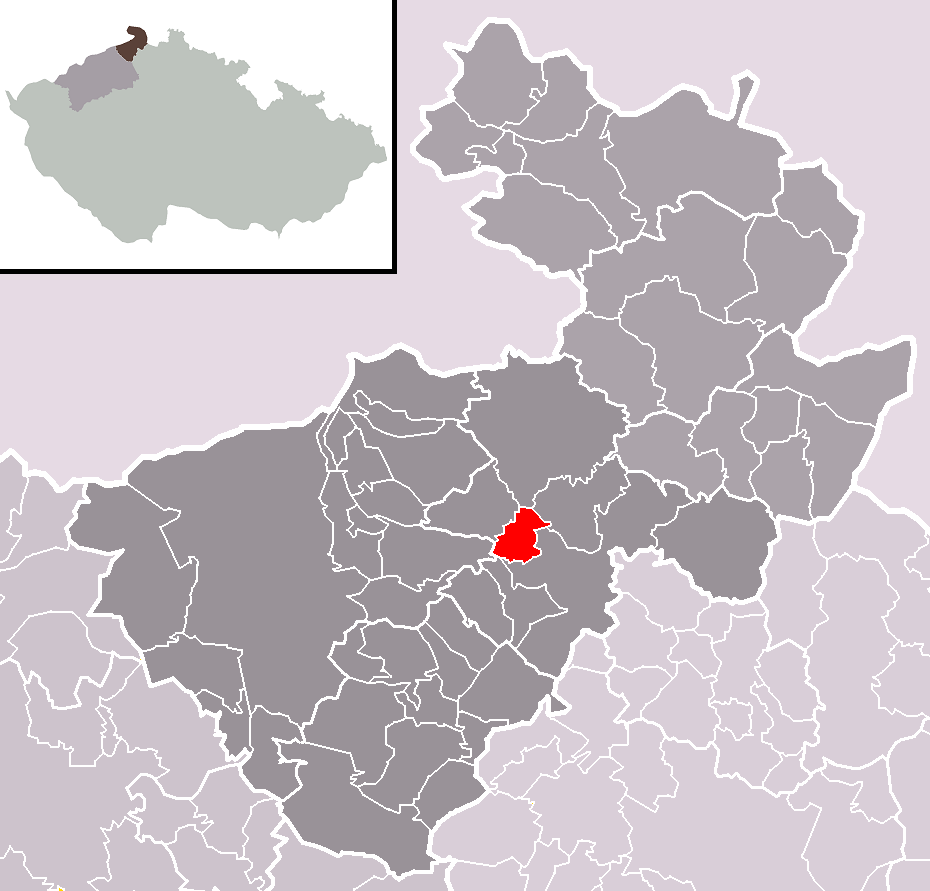 Location of Janská municipality within Děčín District and administrative area of Děčín as a Municipality with Extended Competence.